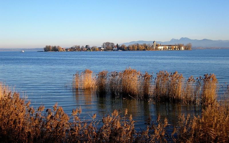 Chiemsee - Bavaria - Germany